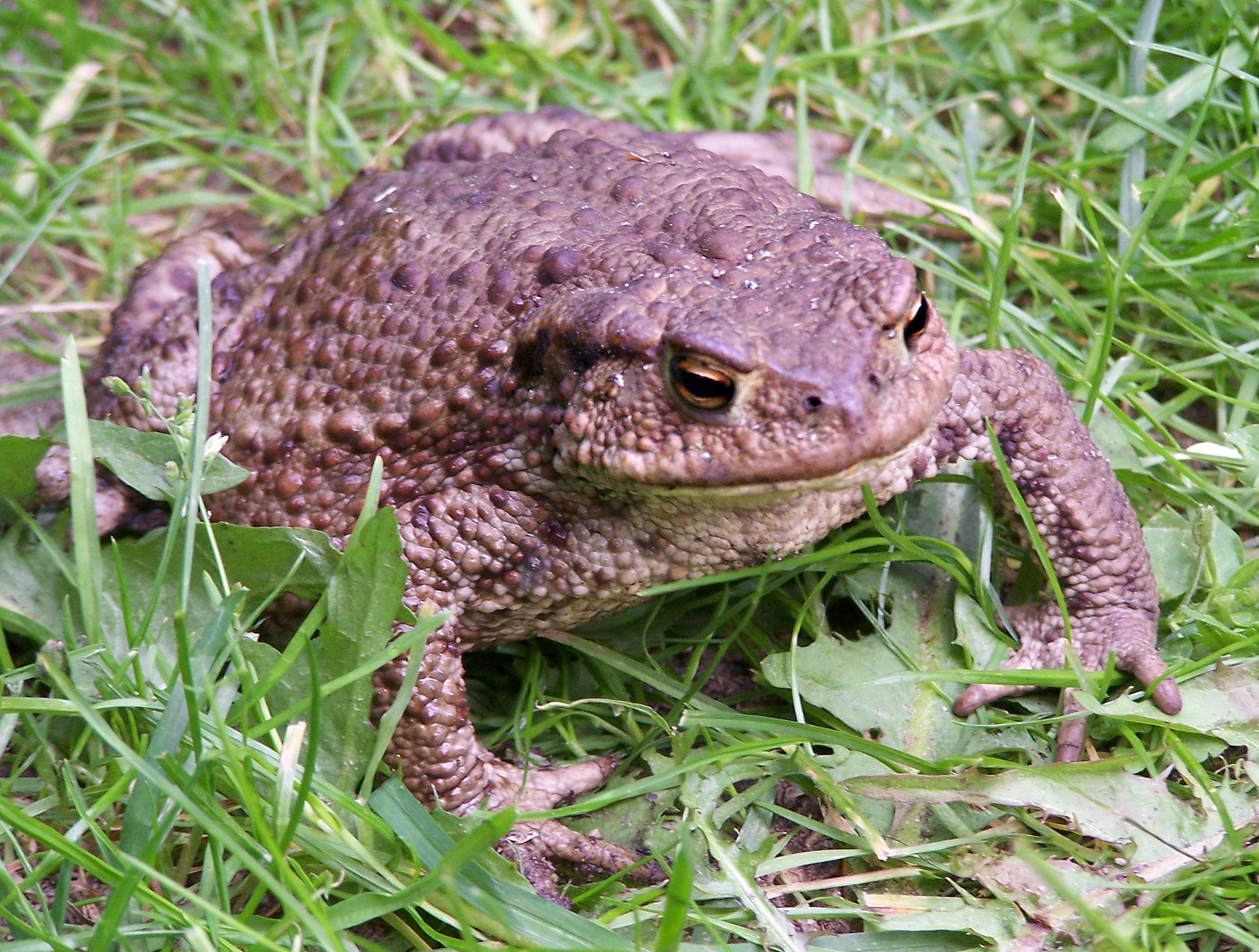 Bufo bufo